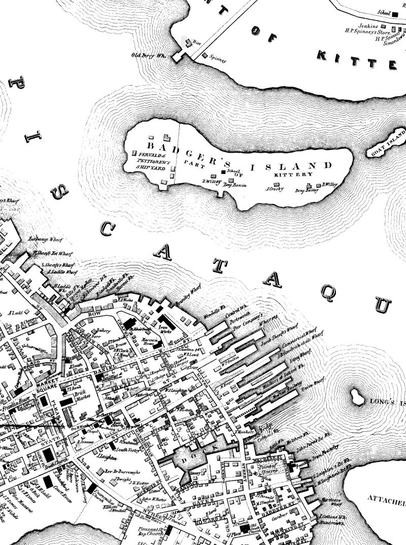 Badger's Island, Kittery, Maine -- detail from 1850 map: City of Portsmouth. This shows Kittery, Maine at top, and Portsmouth, New Hampshire at bottom, separated by the Piscataqua River.